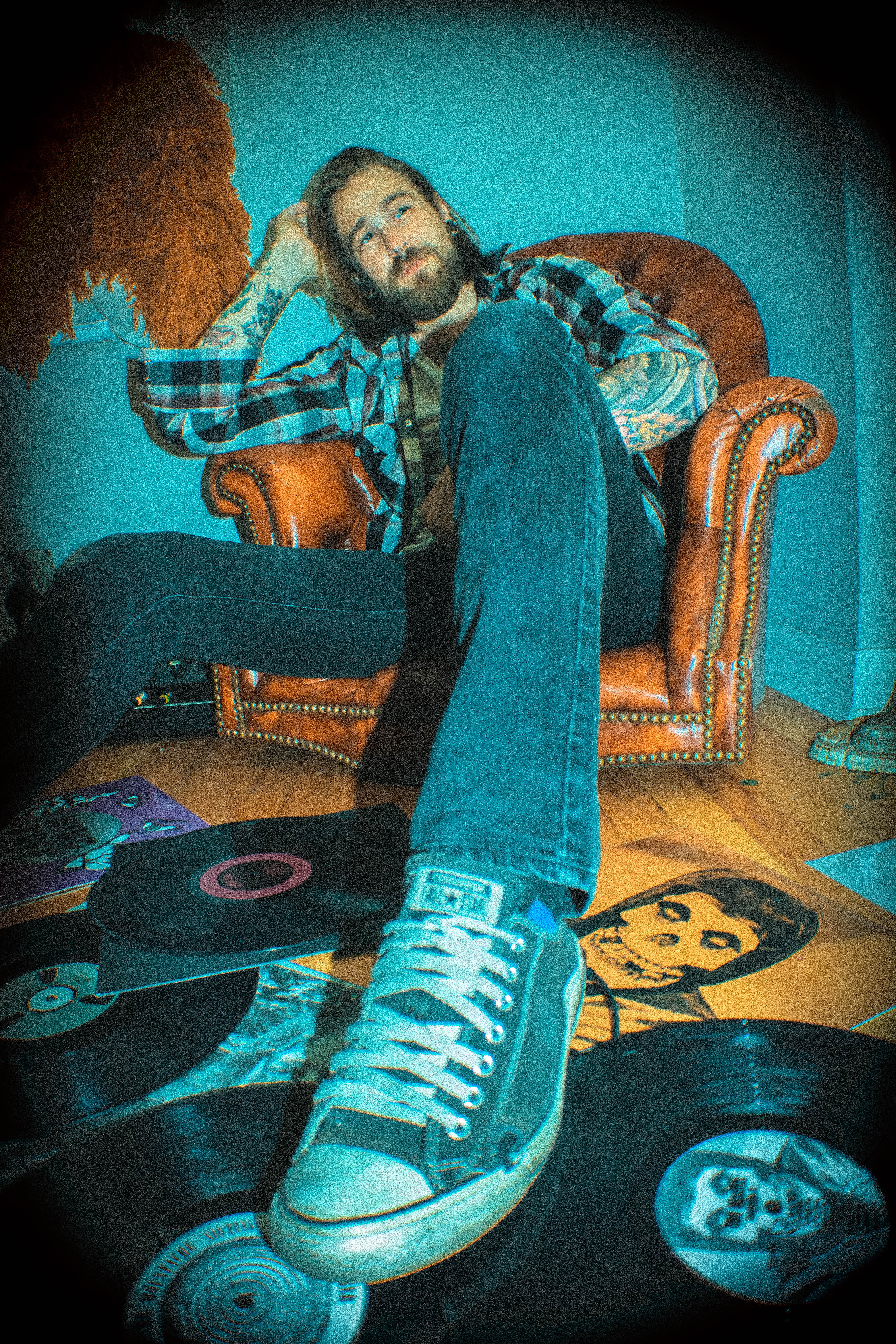 IN GOD WE RUST photoshoot 2016